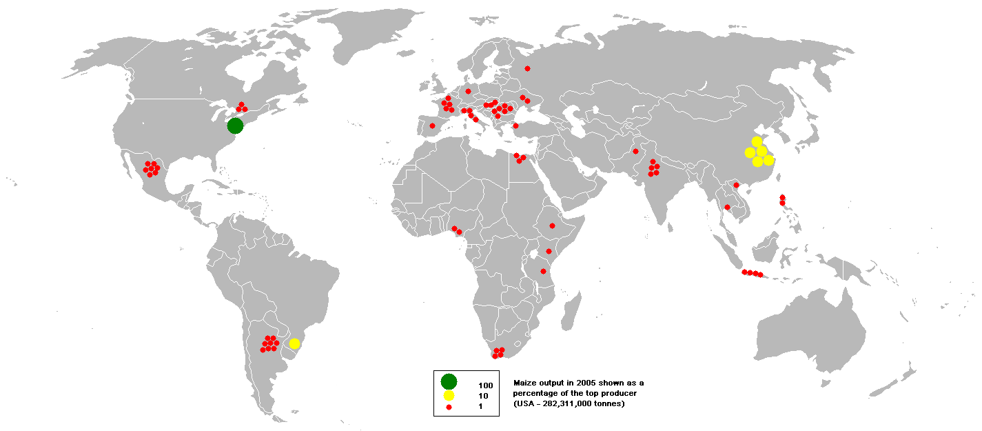 This bubble map shows the global distribution of maize output in 2005 as a percentage of the top producer (USA - 282,311,000 tonnes). This map is consistent with incomplete set of data too as long as the top producer is known. It resolves the accessibility issues faced by colour-coded maps that may not be properly rendered in old computer screens. Data was extracted on 9th June 2007 from Based on :Image:BlankMap-World.png